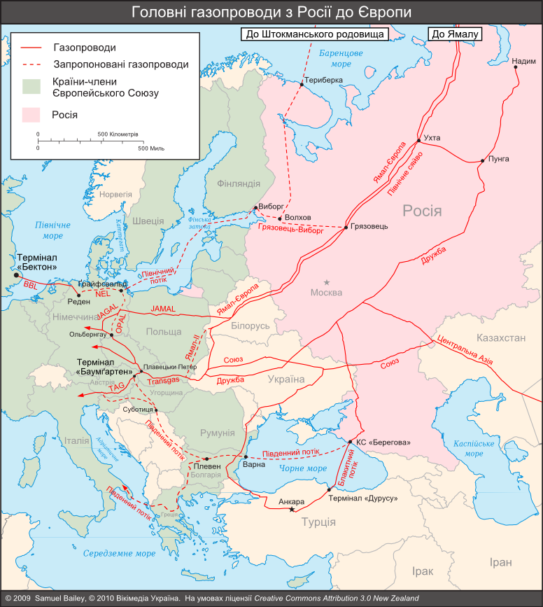 Major Russian gas pipelines to Europe (in Ukrainian).